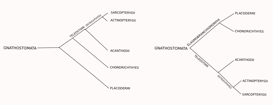 Gnathostomata phylogeny